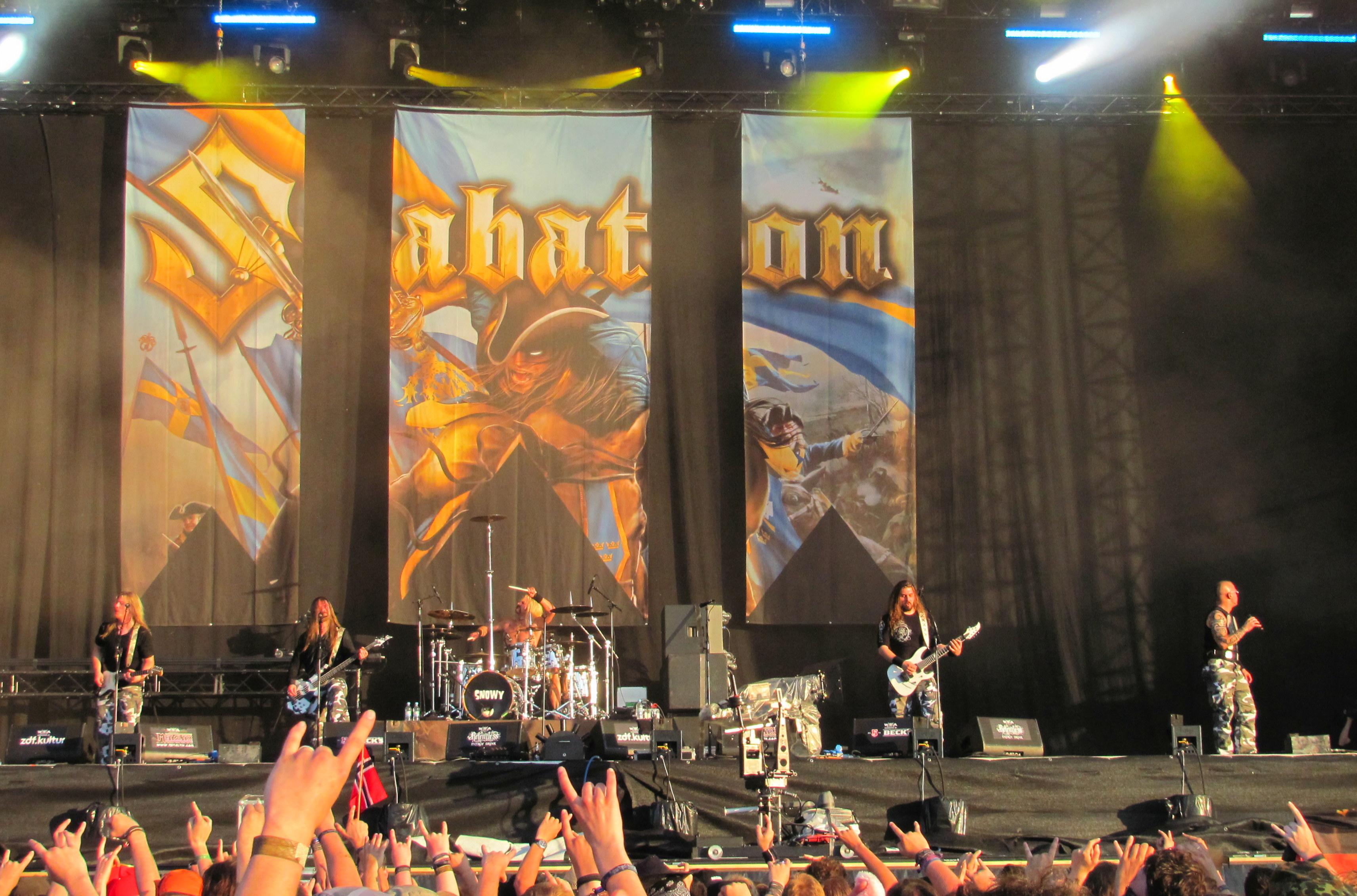 Sabaton at Wacken Open Air 2013